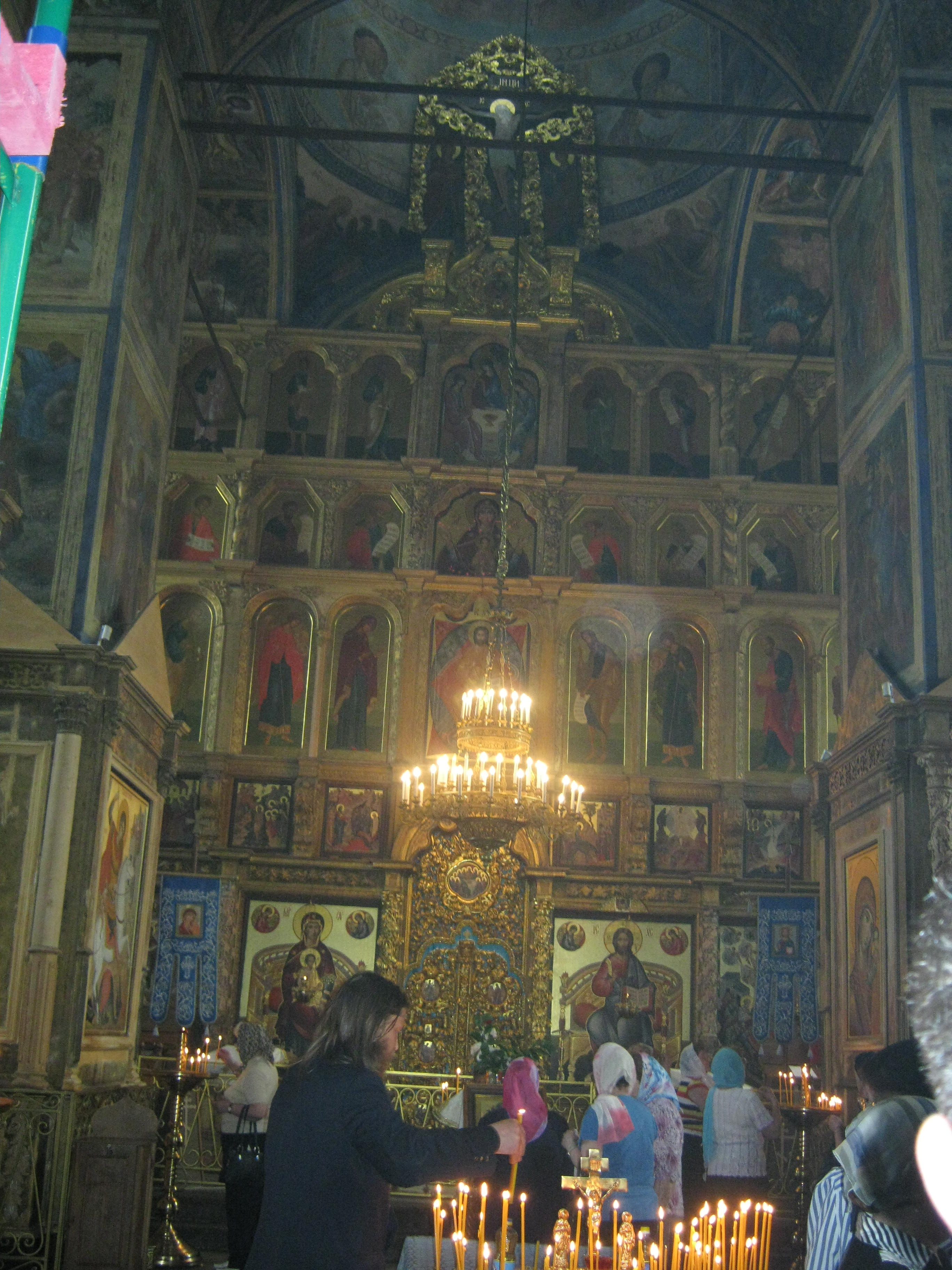 Leningrad Oblast (Russia), Tikhvin, Monastery of Dormition